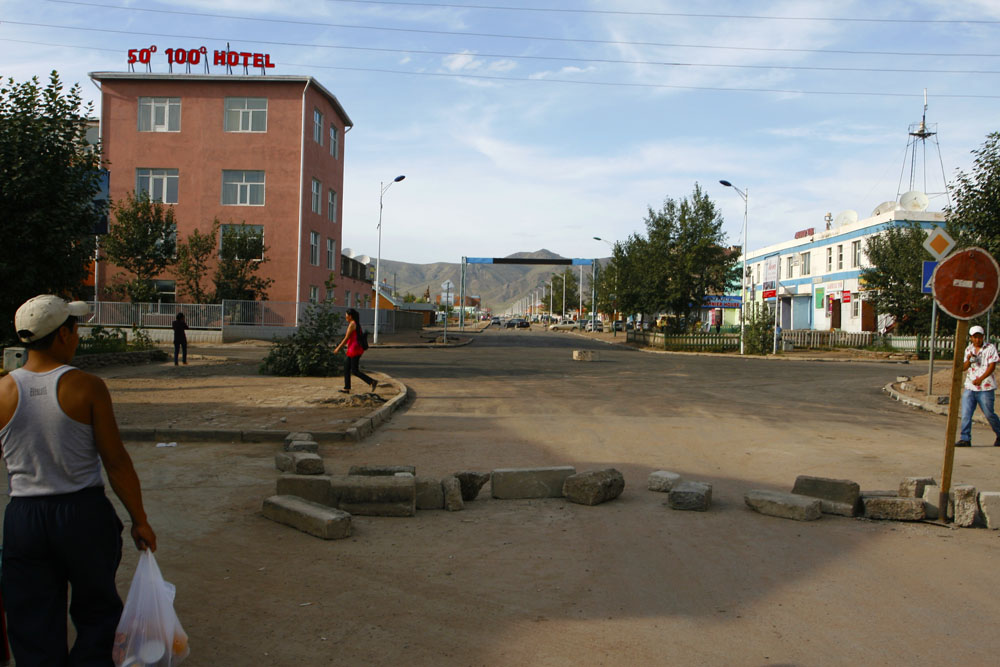 Hotel 50-100 in Mormon city